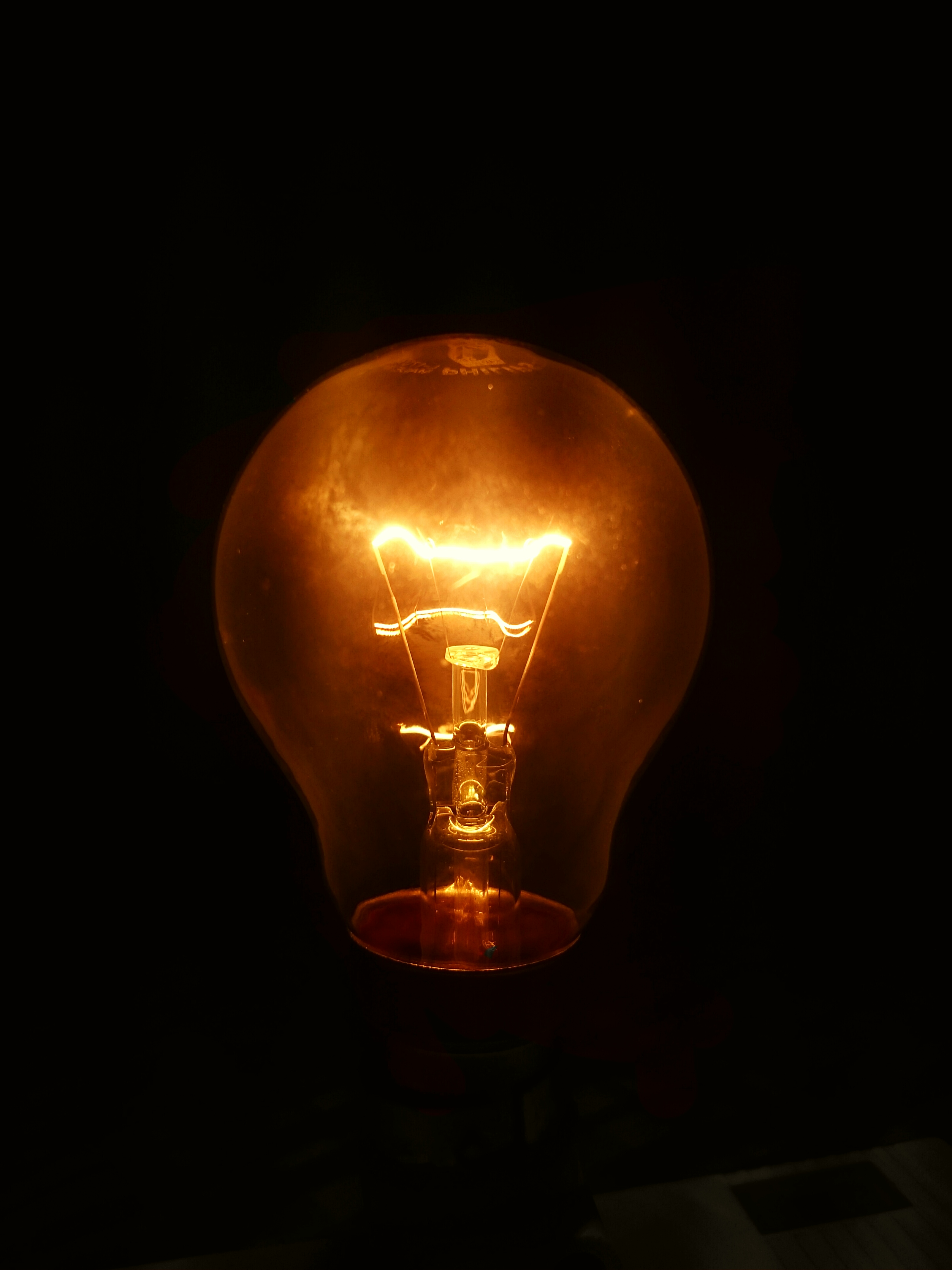 A light bulb showing its beauty in the dark.